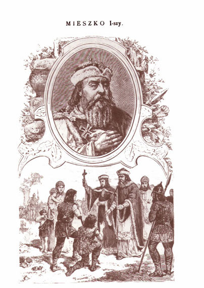 Mieszko I (engraving by Xavery Pillati)